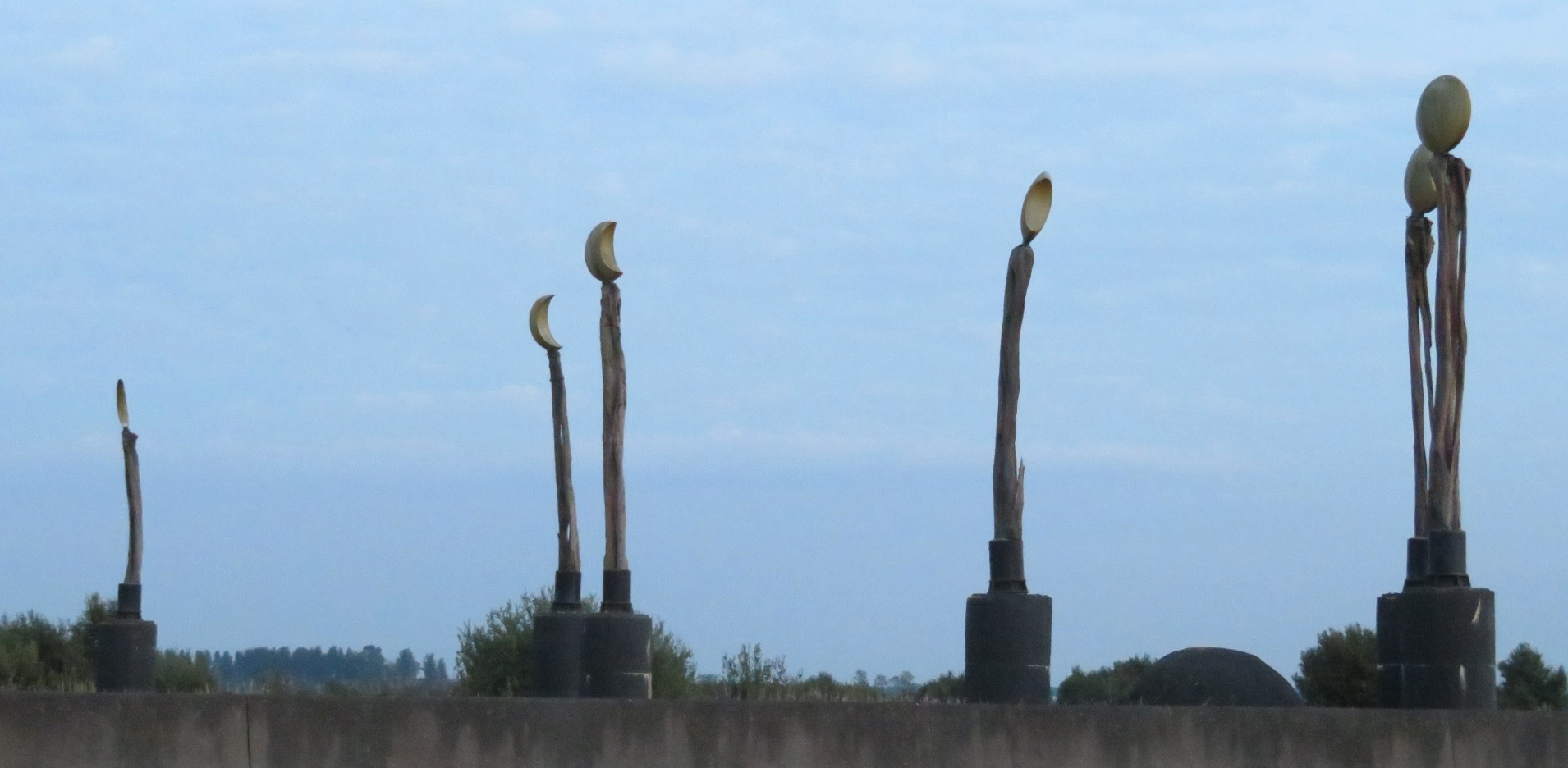 Passage, a sculpture by Brian O'Loughlin (2006) at Pass of Kilbride beside the westbound lanes of the M6 motorway, near Milltownpass, in County Westmeath in Ireland. Six 10-metre figures of bog oak are topped with aluminium discs, powder-coated with touches of gold leaf.